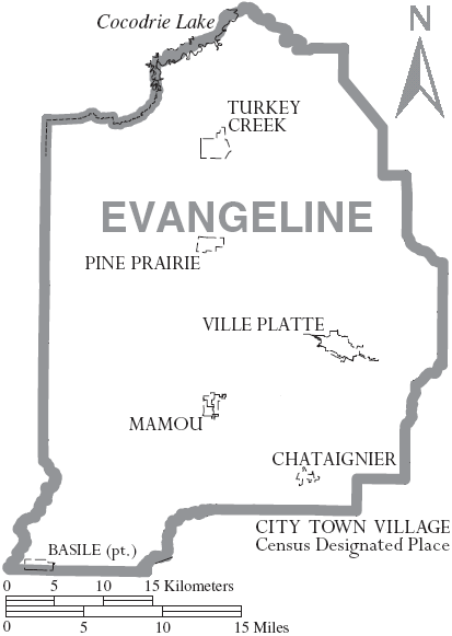 Map of Evangeline Parish, Louisiana, United States with municipal boundaries